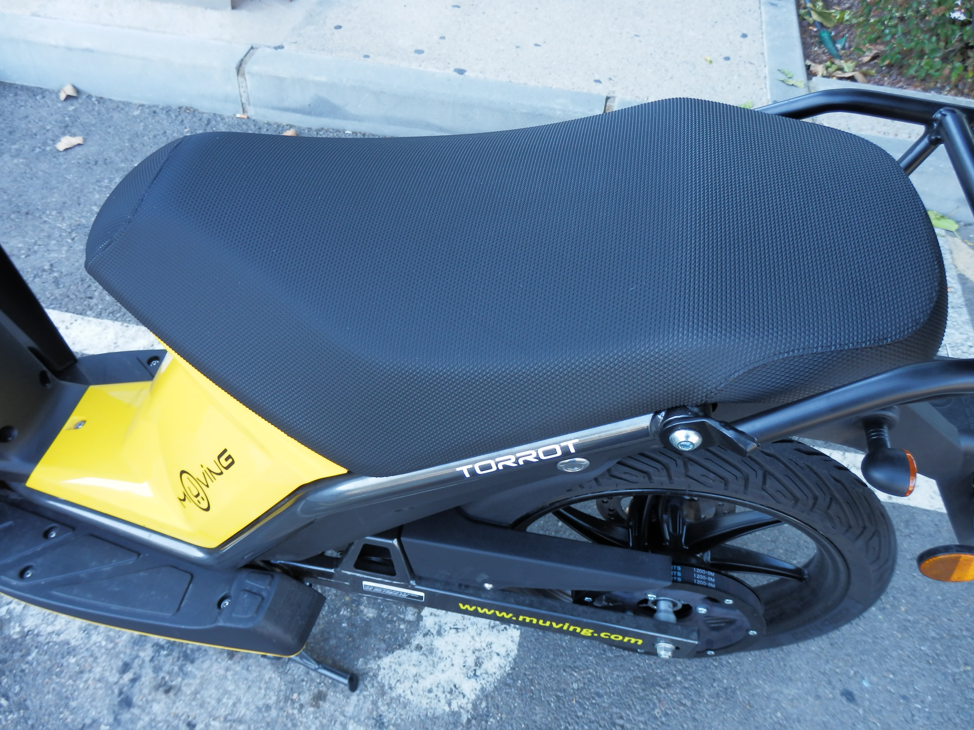 Torrot Muvi electric bike.